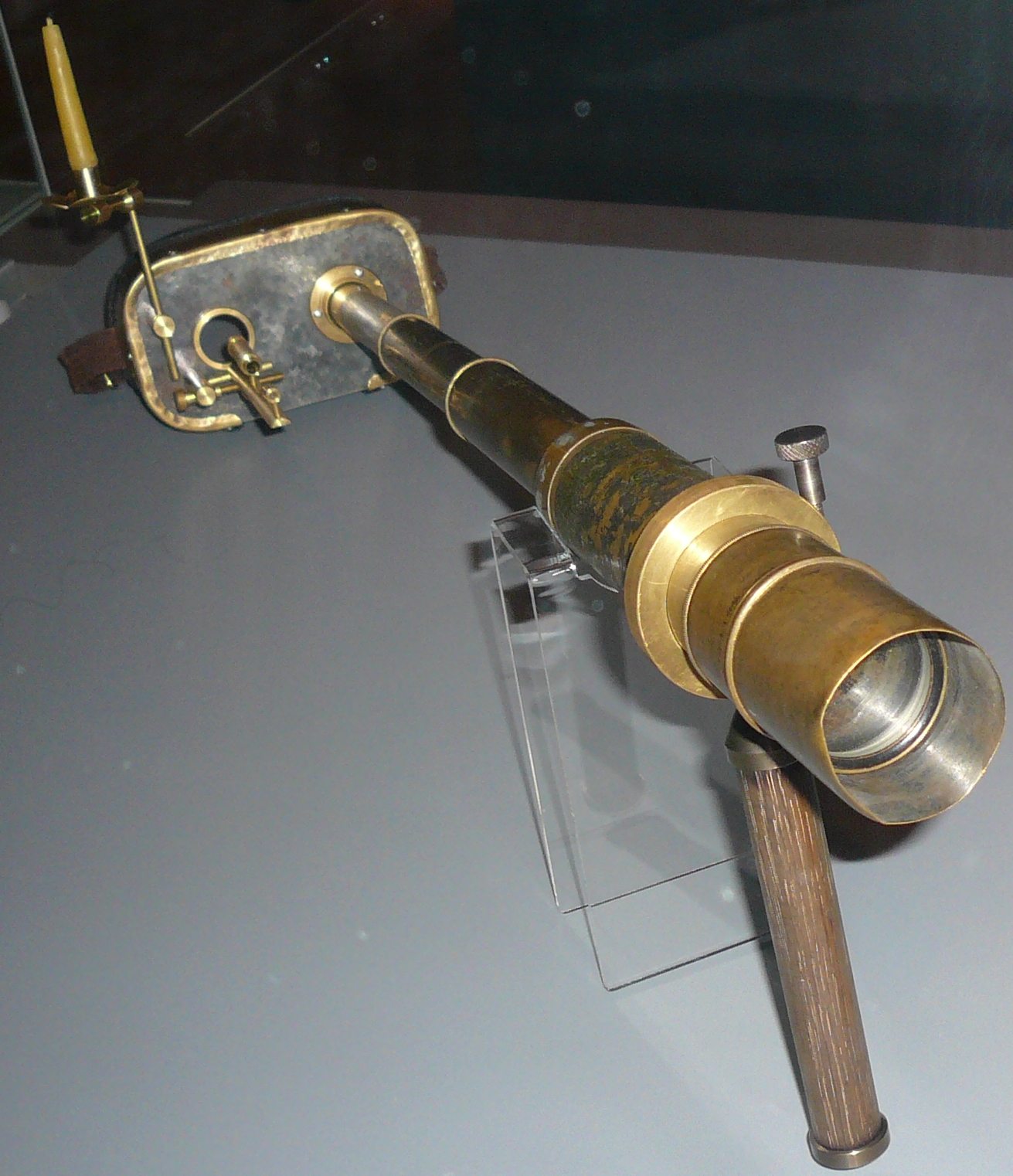 Celatone by Matthew Dockrey. Brass and steel, antique spyglass. An interpretation of Samuel Parlour's 'apparatus to render a telescope manageable on shipboard', itself a reinvention of Galileo's celatone. As per Parlour's original design, the finder can be moved side to side, allowing the wearer to position it to match their interocular distance. The candle height is also adjustable. Museum at the Royal Observatory, Greenwich, UK.